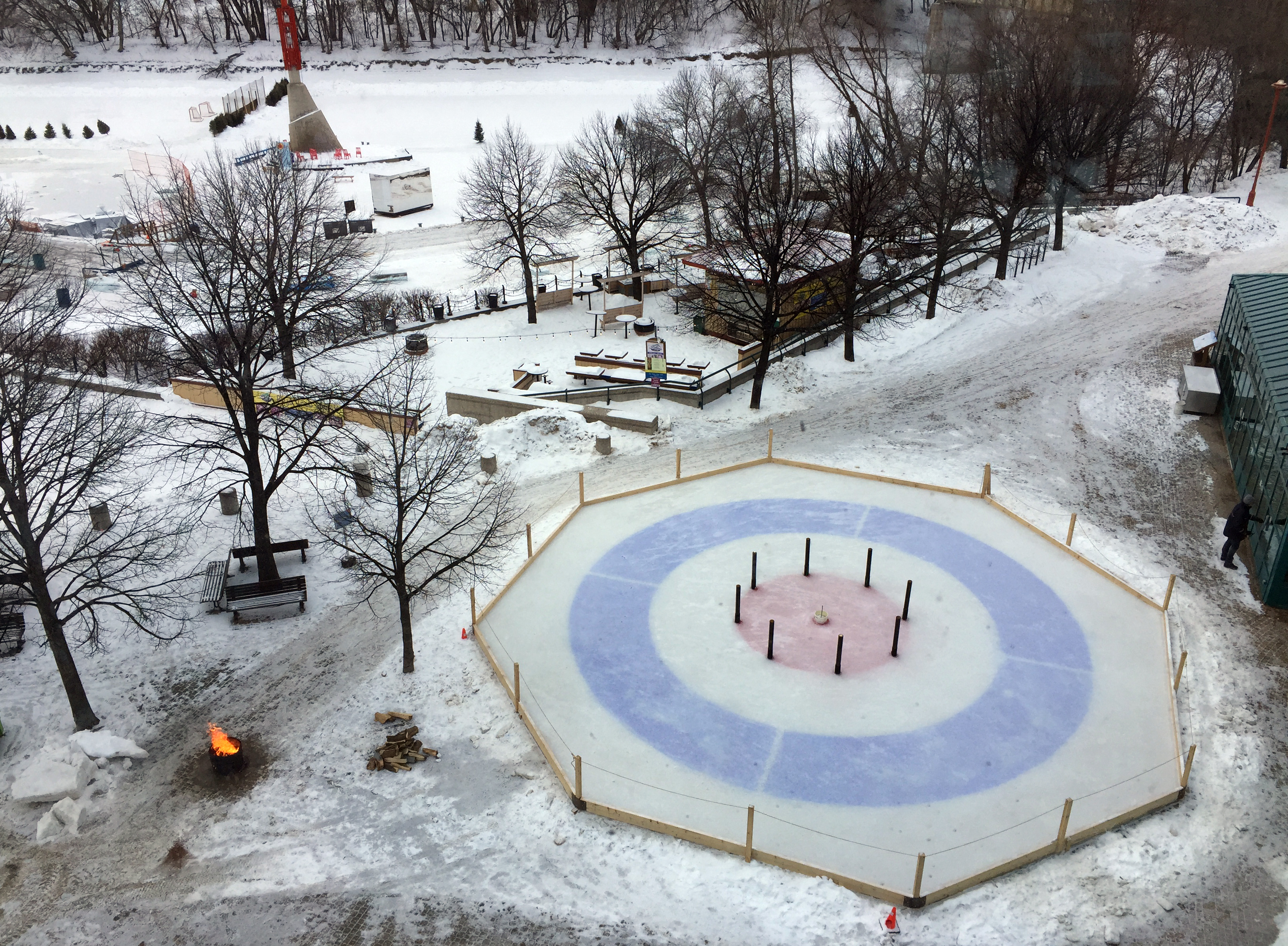 The Crokicurl rink at the Forks Plaza in Winnipeg, Manitoba